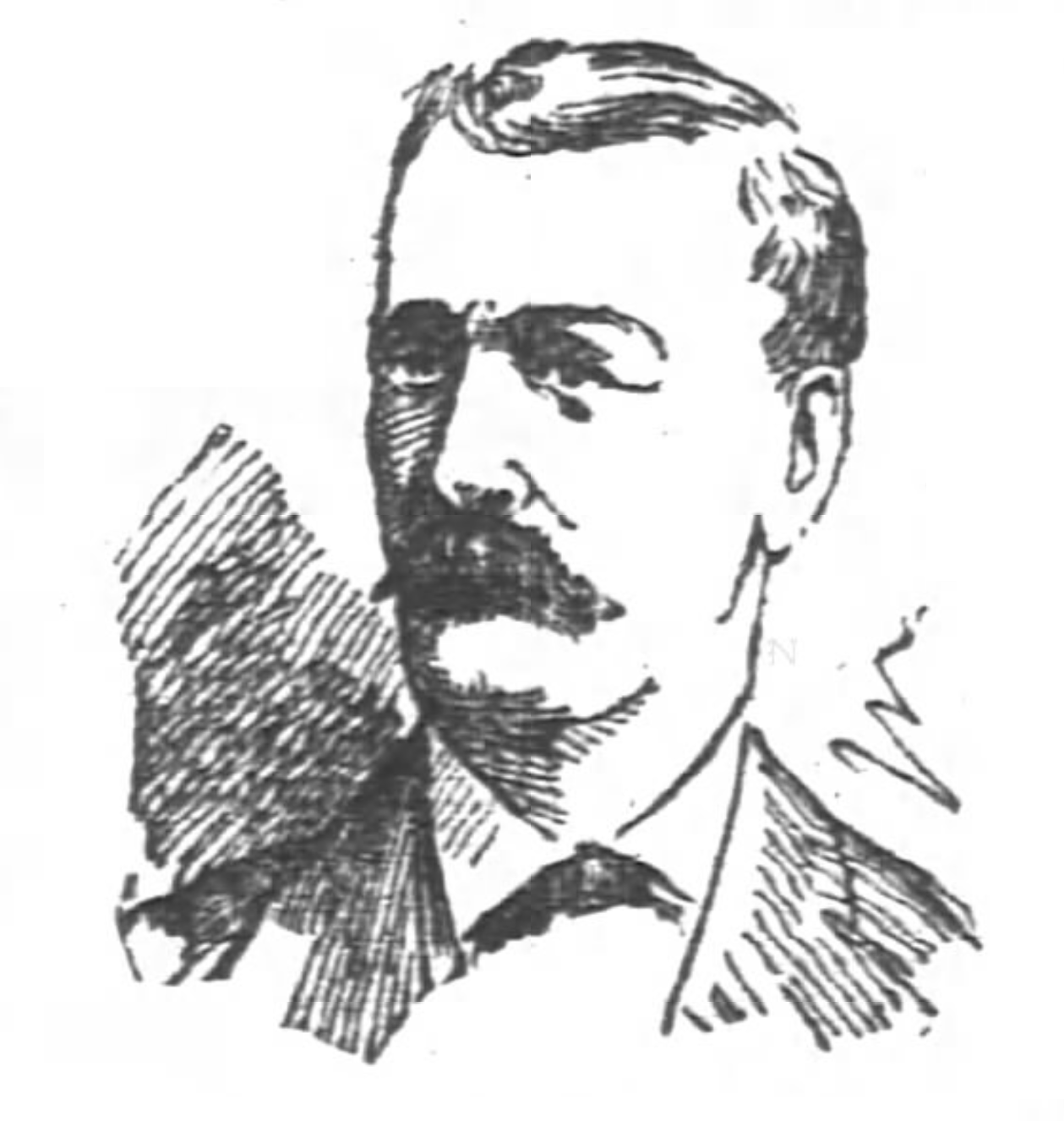 Deputy Marshal David J. Naegle, illustrated in the San Francisco Chronicle, on August 15, 1889